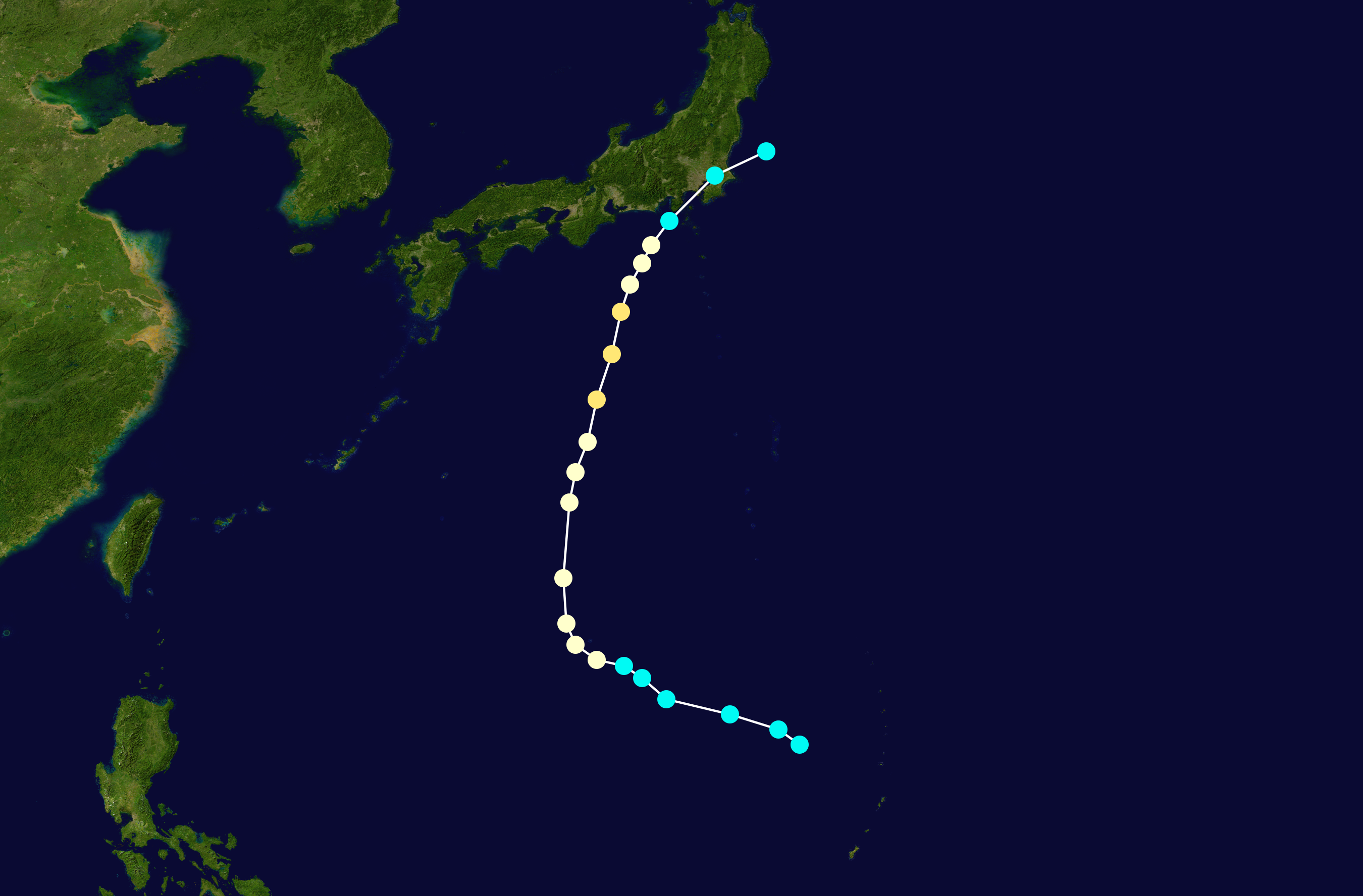 Track map of Typhoon Kathleen of the 1947 Pacific typhoon season. The points show the location of the storm at 6-hour intervals. The color represents the storm's maximum sustained wind speeds as classified in the Saffir-Simpson Hurricane Scale (see below), and the shape of the data points represent the nature of the storm, according to the legend below. Saffir–Simpson scale Tropical depression≤38 mph≤62 km/h Category 3111–129 mph178–208 km/h Tropical storm39–73 mph63–118 km/h Category 4130–156 mph209–251 km/h Category 174–95 mph119–153 km/h Category 5≥157 mph≥252 km/h Category 296–110 mph154–177 km/h Unknown Storm typeTropical cycloneSubtropical cycloneExtratropical cyclone / Remnant low / Tropical disturbance